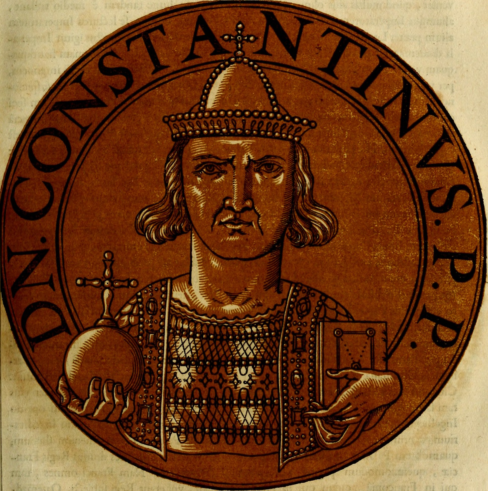 Title: Icones imperatorvm romanorvm, ex priscis numismatibus ad viuum delineatae, & breui narratione historicâ Year: 1645 (1640s) Authors: Goltzius, Hubert, 1526-1583 Gevaerts, Jean-Gaspard, 1593-1666 Rubens, Peter Paul, 1577-1640 Subjects: Emperors Emperors Numismatics, Roman Publisher: Antverpiae, Ex officina plantiniana Balthasaris Moreti Text Appearing Before Image: m deficientes. EzechielfcJoannes7 appellant populum hunc Gog & Magog. Gog tentorium vocatur , & Ma-gog populus eft extra tentoria: nam Tartari habitant in tentorijs. Et aperte fcribit Ezc-chiel permififle-Deum augeri potentiam Gog propter peccata populi. Methodius autemait Gog& Magog vltra Cafpios montes, hoe eft, Caucafum, conclufos fuifle , & vulpem illis meatum facluram efle. Vulpeshaec Mahometeseft; nam per legem Mahometi-cam prouocati, potentes fa&i funt, & dominari coeperunt. Dicebat enim Mahomet,popu-lum fuum Deo gratum efle, atque adeo ad qnem benedi&ionis promifllo pertineret, &c dominaretur in toto Orbe. De principio autem huius Mahometis lege paginam lyz.&iyq.huiufce libri. Poftquam diu Conftantinus ar&e Imperiilm adminiftraflet, vindi&a diuinaidus intolerabili seftu confumptus exclamauit: Viutts inextinguibili igne accendor, dif-xrttciorifo. Haeretico Patriarchal ciboruna excrementa ore erumpebant. 213 CIX. CORPVS EXCORS FRAGILE. Text Appearing After Image: Ciim xxxin i. annis,n. menfibusatque XXvi. diebus, rerum Orientalium potitus eflet, violentiffima incurabilique febri interijt. Dd 3